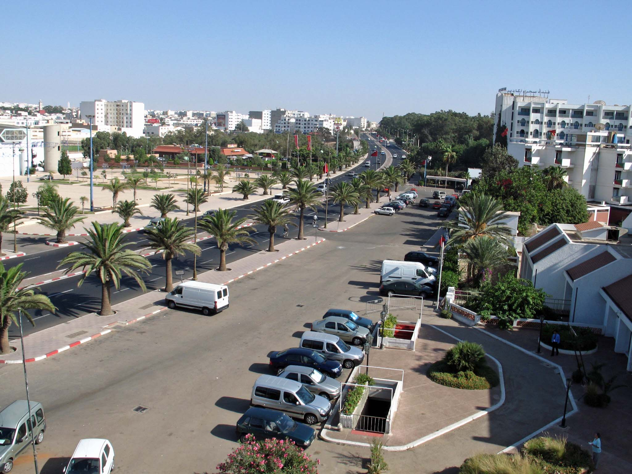 Agadir, Blvd. Muhammad V (Morocco)